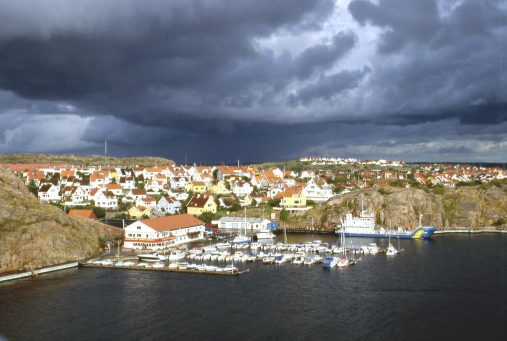 Kungshamn in Bohuslän, Sweden